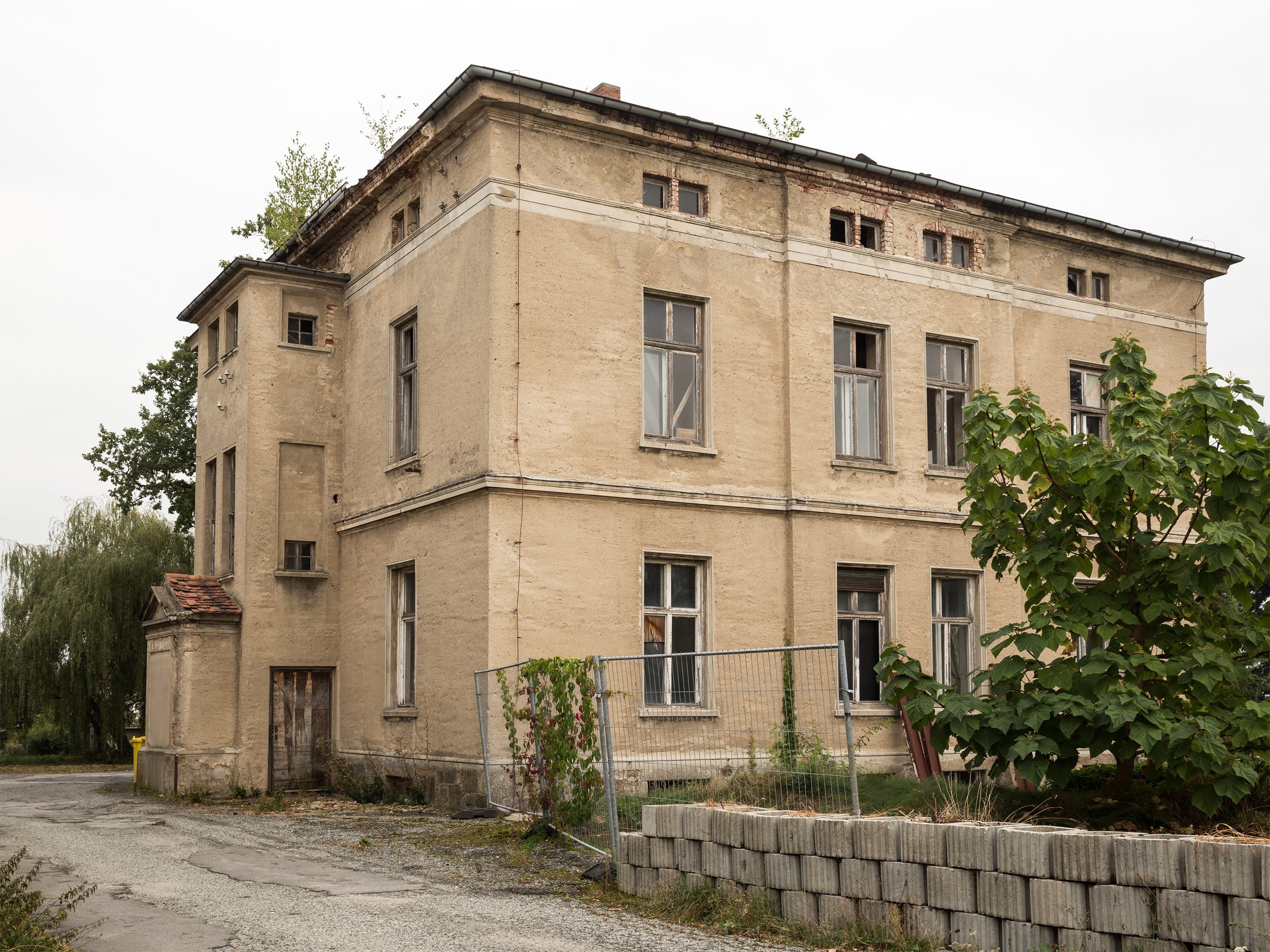 Birkau (near Göda, Bautzen), former manor